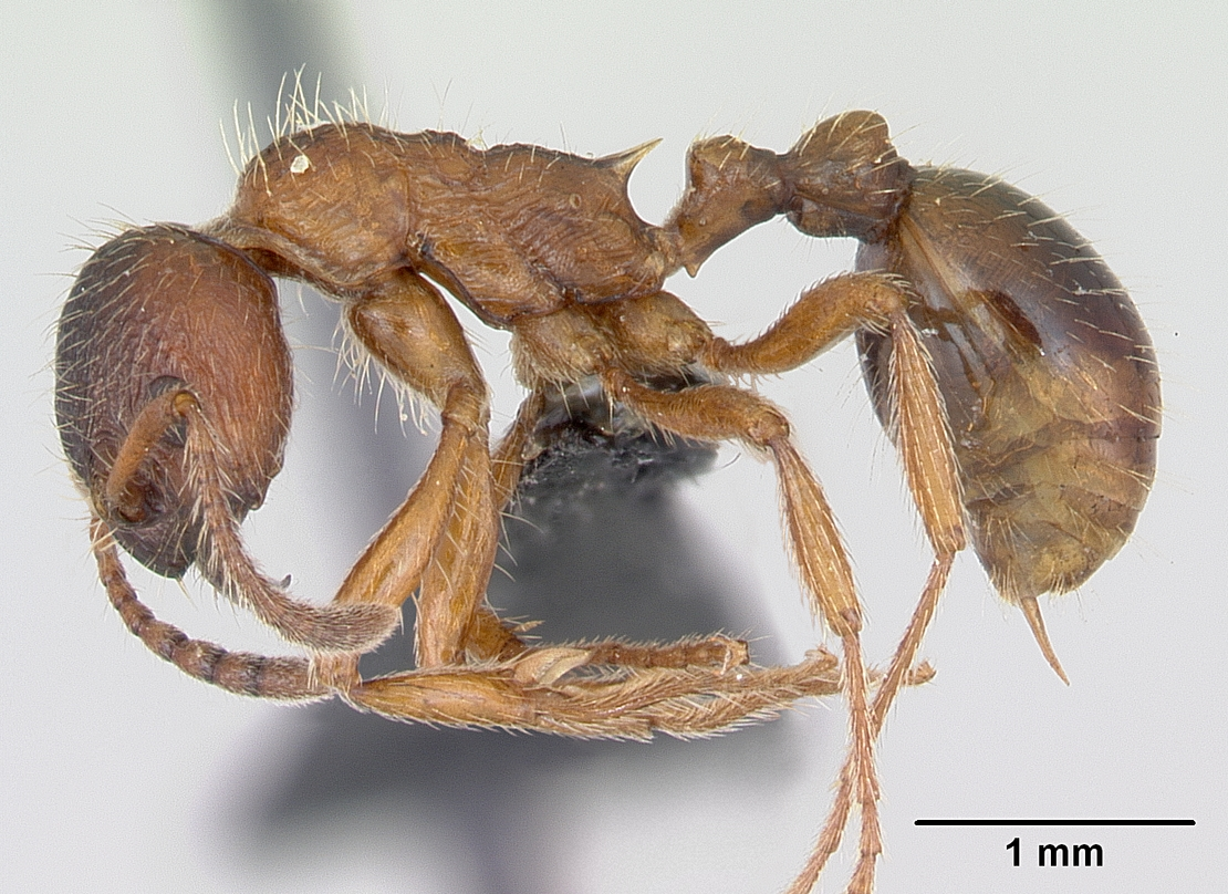 Profile view of ant Myrmica rubra specimen casent0172750.